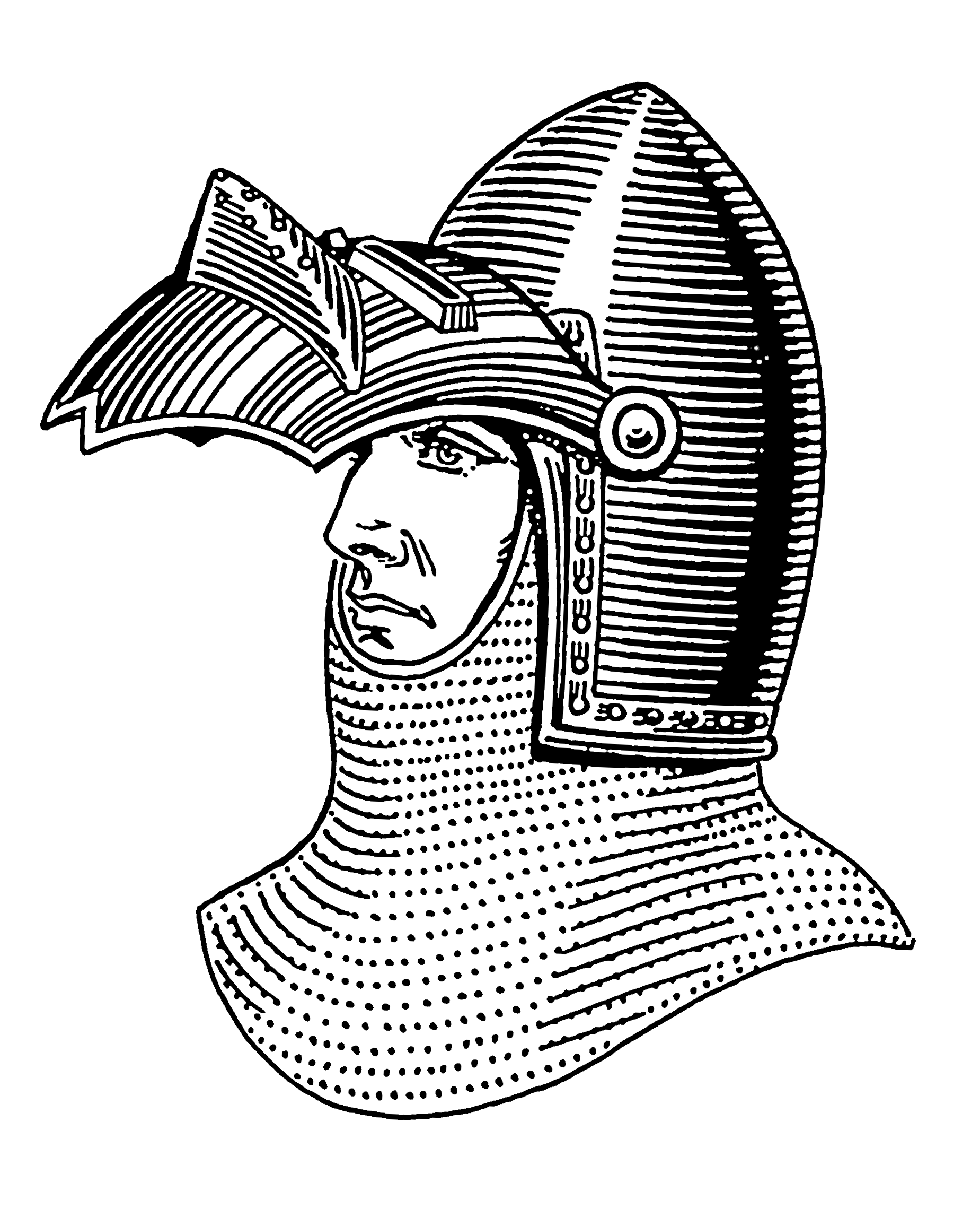 Line art drawing of a bascinet.